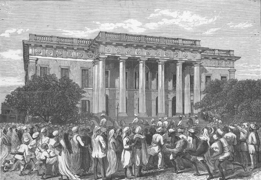 "Prinsep's Ghaut, Calcutta," from the Illustrated London News, 1876; also *Calcutta Cathedral*; also *"The Town Hall, Calcutta"*; also *"Craft on the Hooghly"* Source: ebay, Mar. 2006